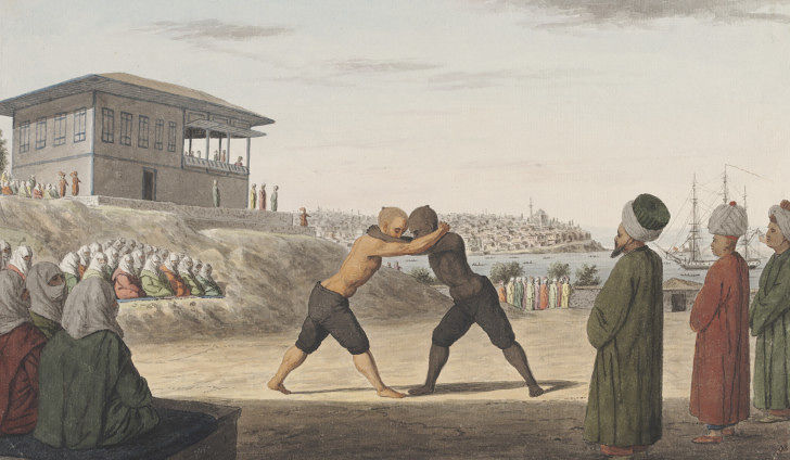 A game of oil wrestling (Turkish: güres) in the gardens of the Topkapi Palace